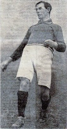 Jimmy Birch, QPR player between 1912 and 1926.